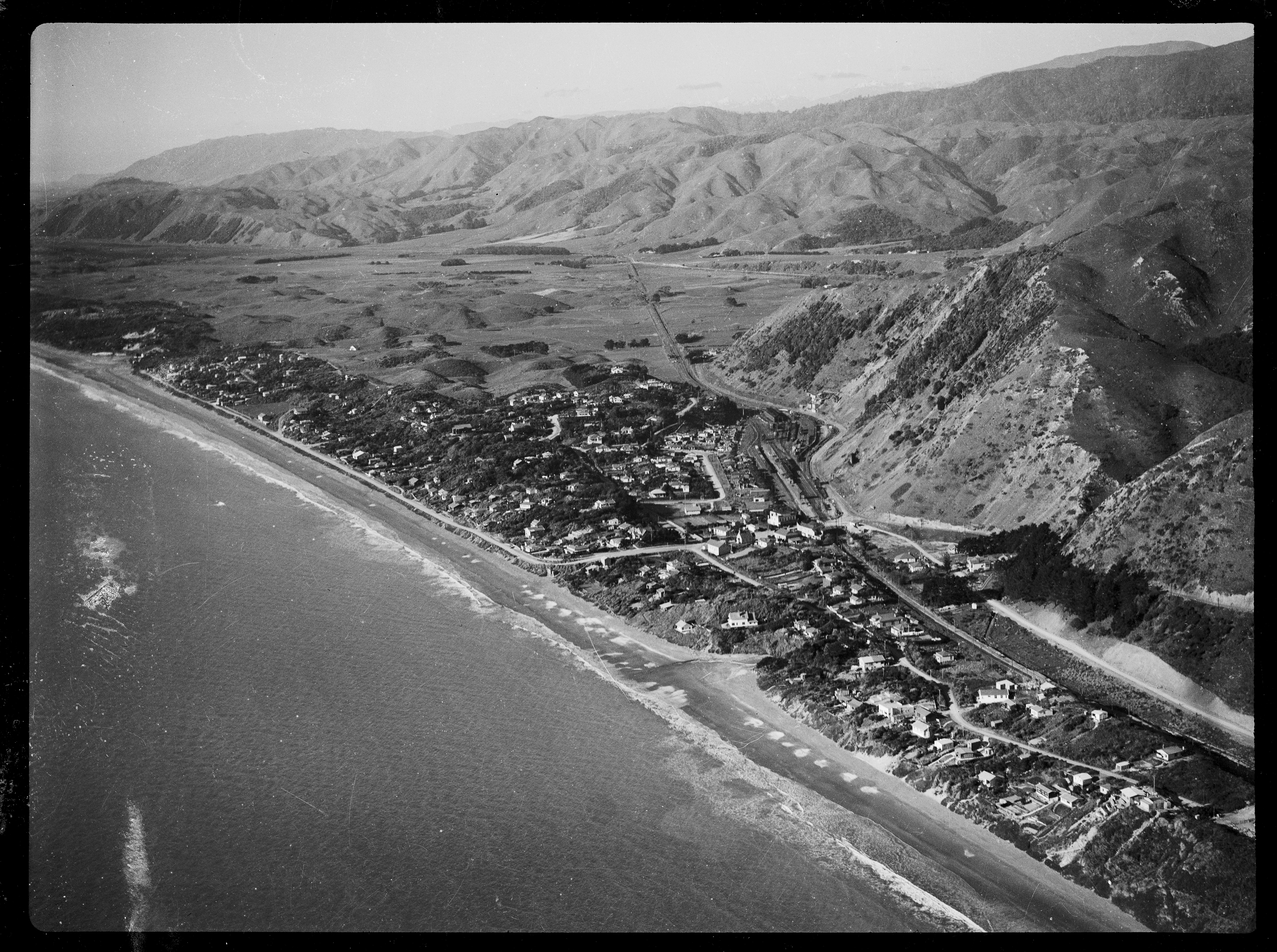 Aerial view of Paekakariki, Kapiti Coast, ca 1930 Reference Number: 1/4-019755-F. Photographer: William Hall Raine. Film negative. Photographic Archive, Alexander Turnbull Library. Part of a collection of photographs from ca 1920s-1940s. Find out more about this image on the National Library of New Zealand website